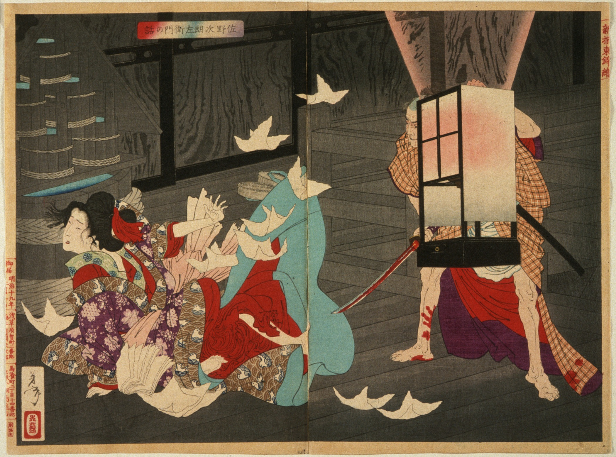 Japan, 2/1886 Alternate Title: Sano jirozaemon no hanashi Series: A New Selection of Eastern Color Pictures Prints; woodcuts Color woodblock print Herbert R. Cole Collection (M.84.31.539a-b) Japanese Art